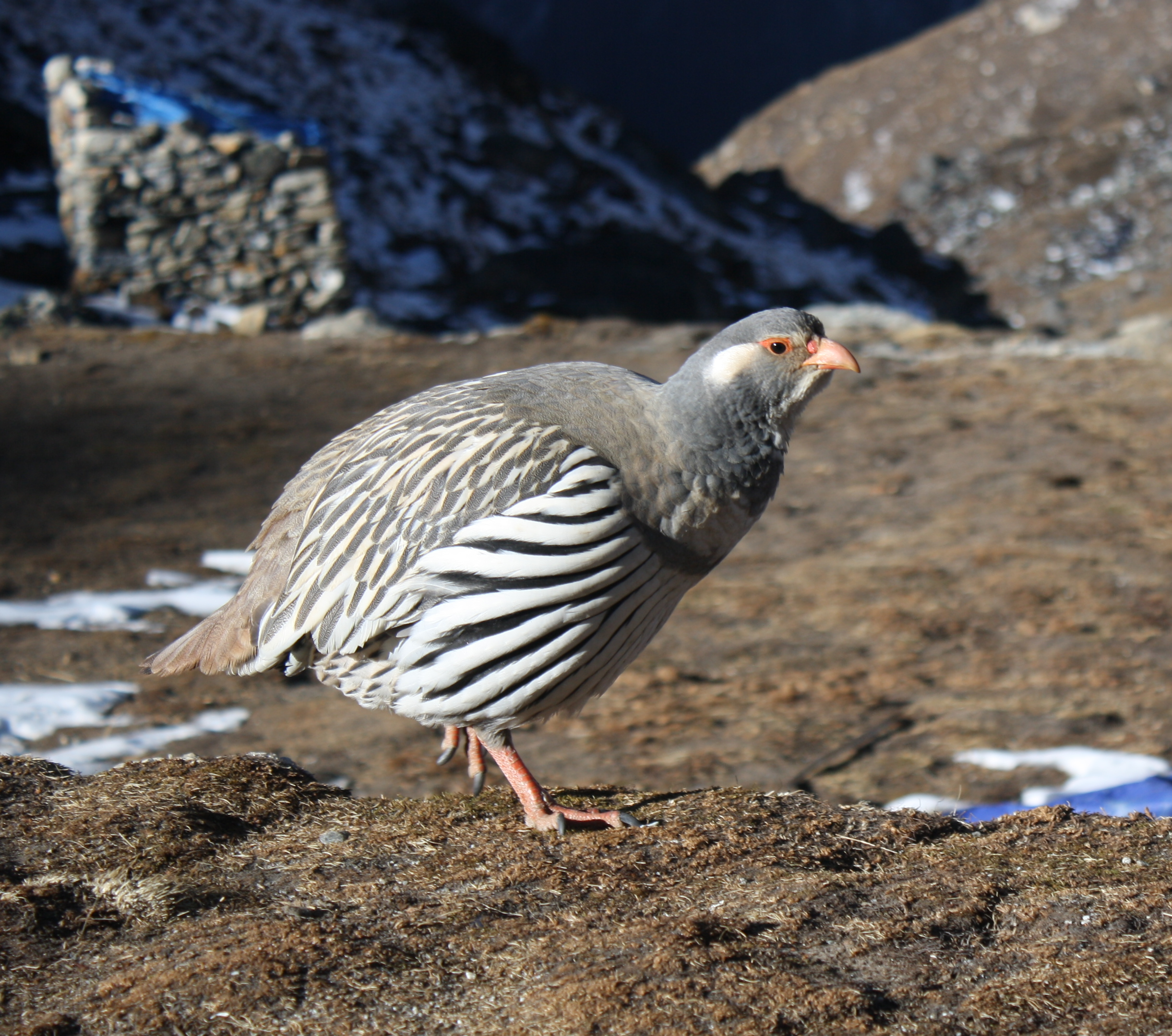 Mera Peak